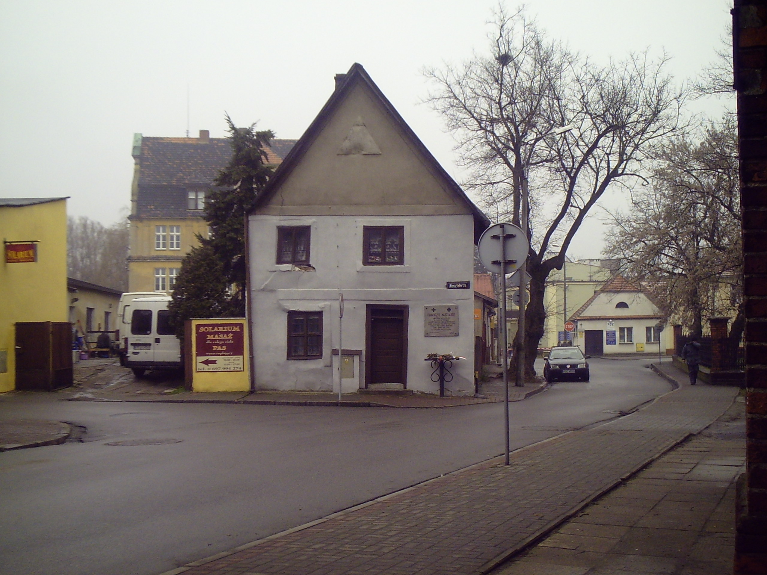 picture of a house in Koscian, Masztalerza street